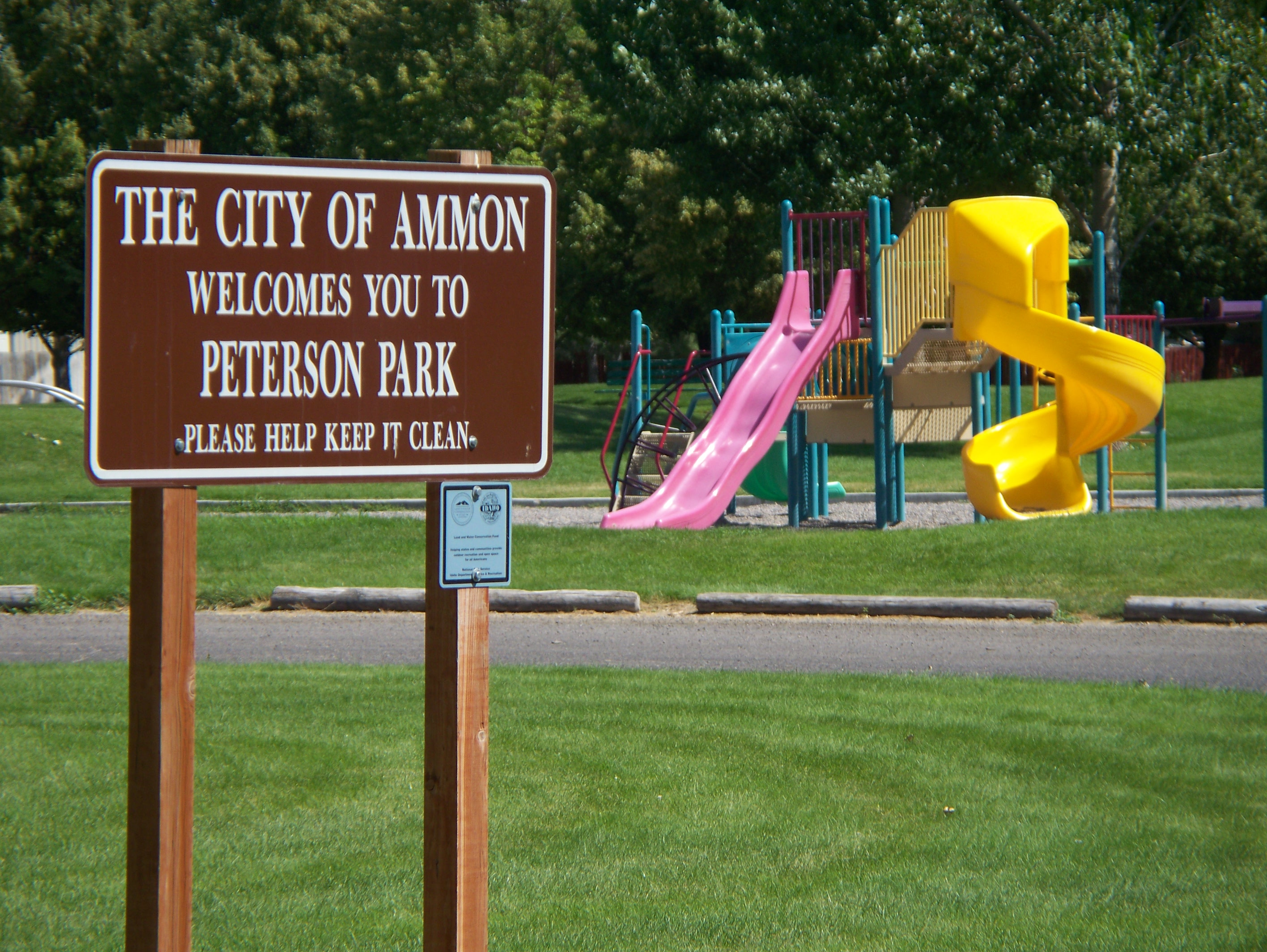 Peterson Park in Ammon, Idaho